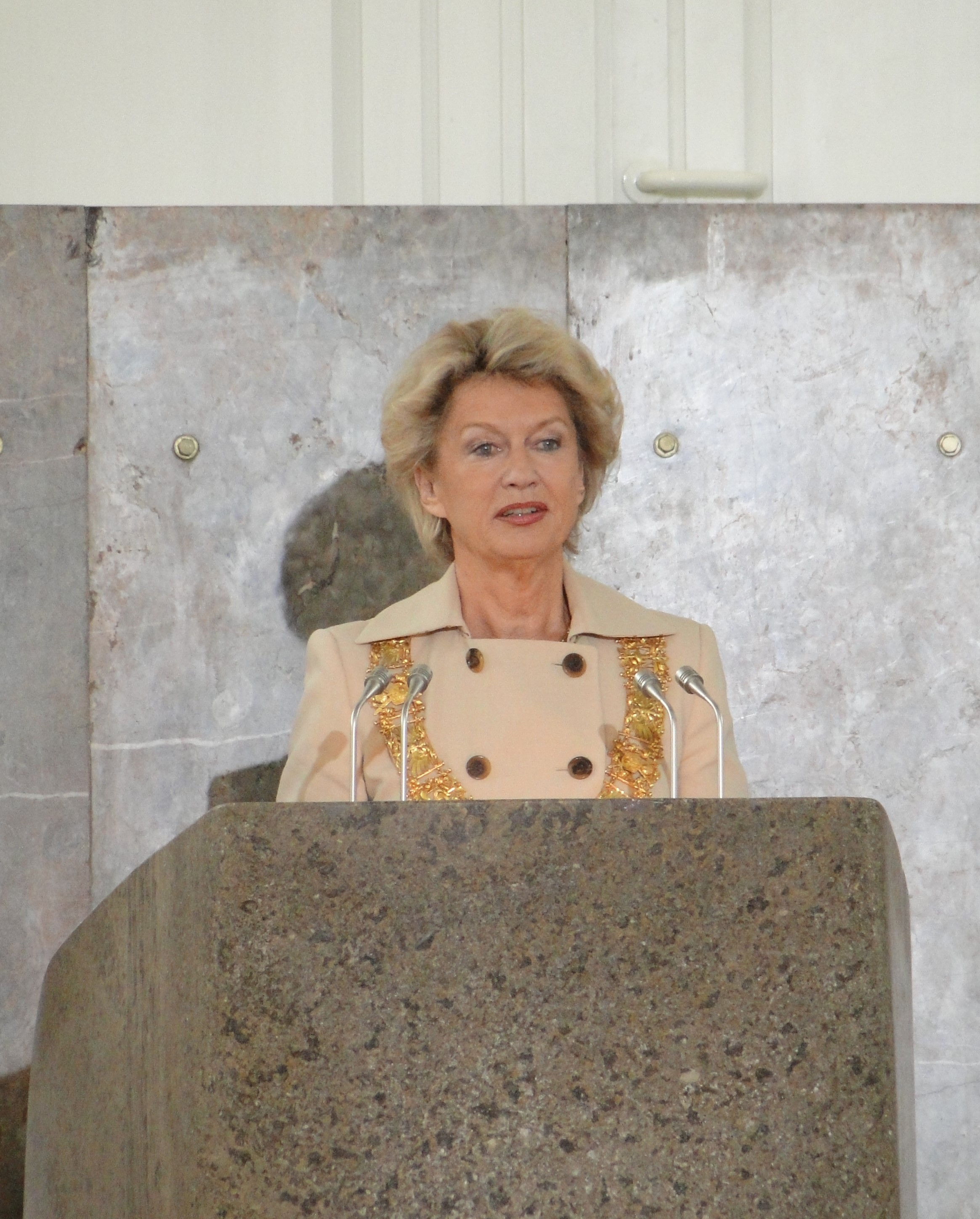 Petra Roth, mayor of Frankfurt, at "Paulskirche", 2009